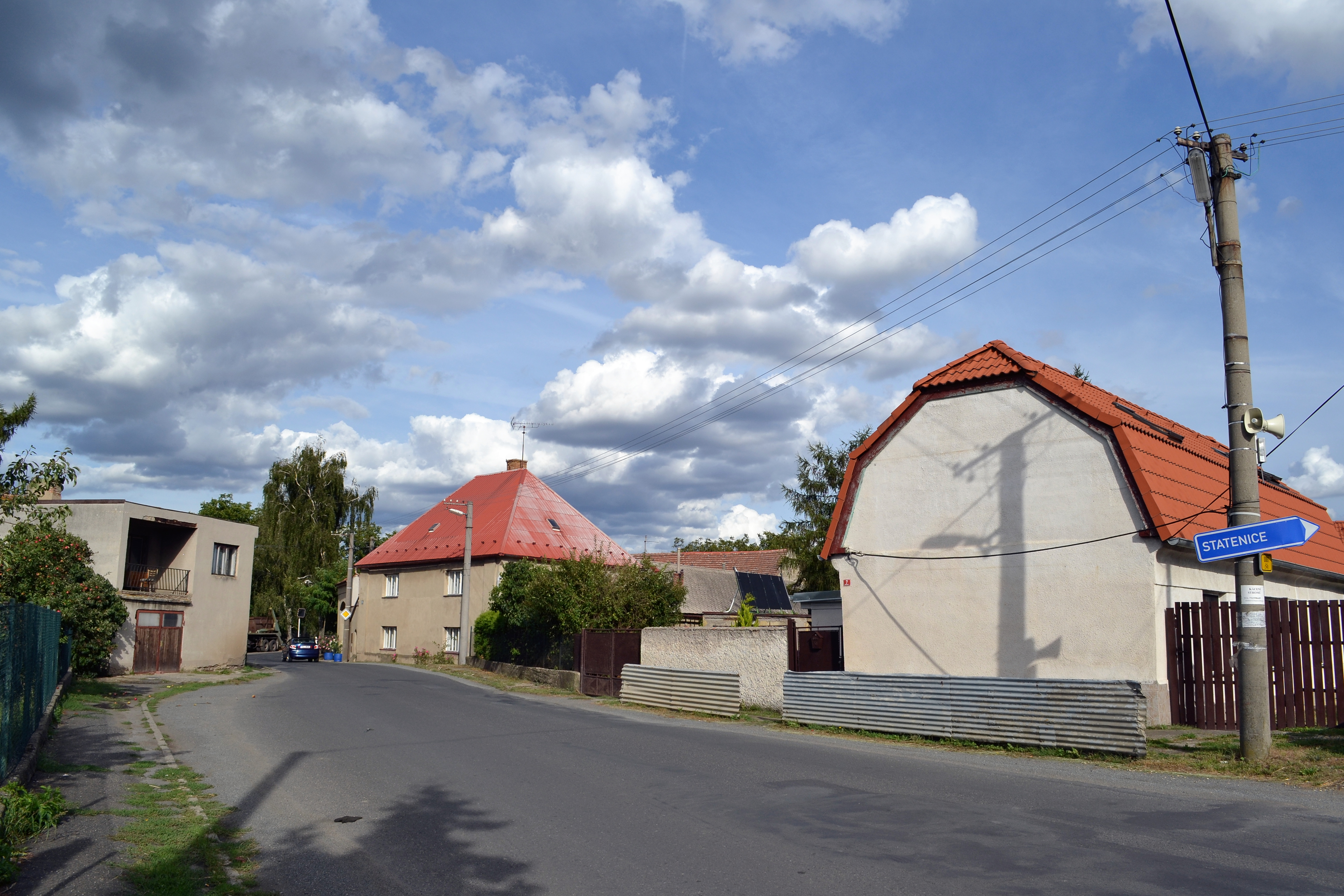 The main street in the village Lichoceves, Central Bohemian Region, Czech Republic.